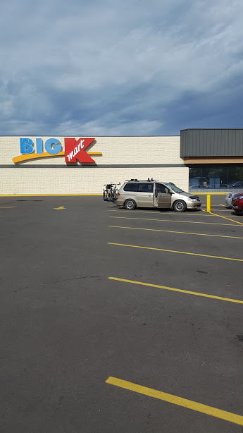 Big Kmart in Marshall, Michigan, October 15, 2019. It has become the very last Kmart store in the state. This store is still open as of 2020.